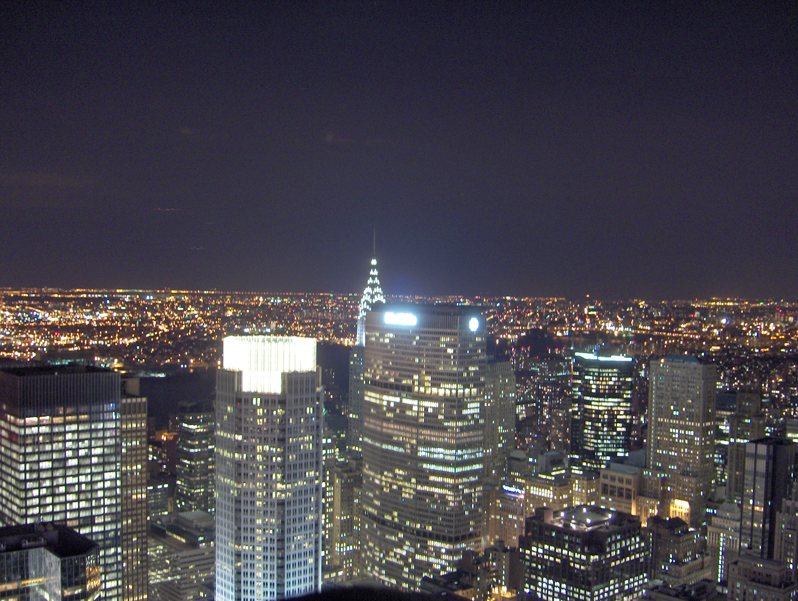 View from Top of the Rocks, Rockefeller Center, NYC